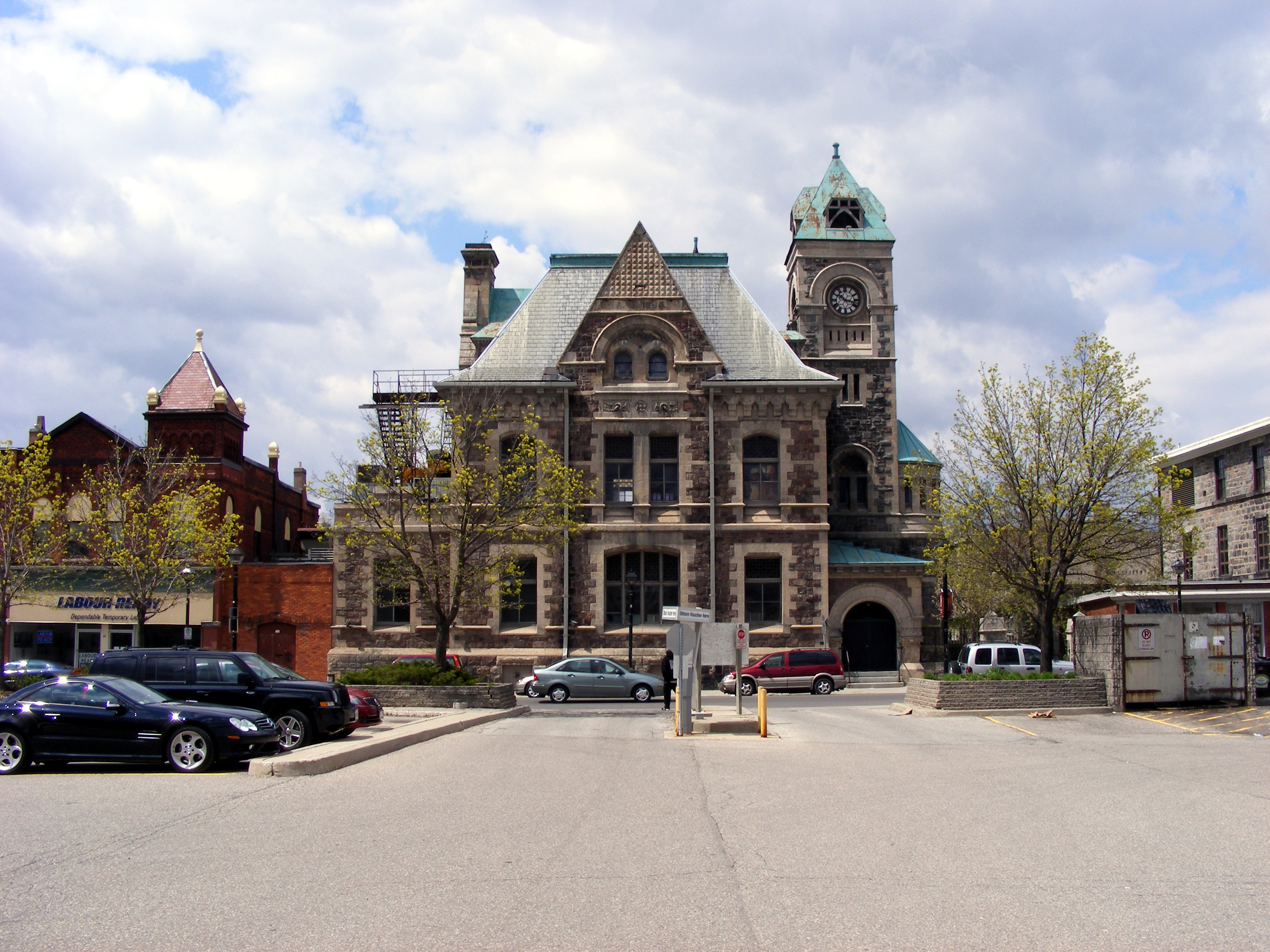 Old Post Office building in Galt, Cambridge, Ontario. Built 1886 per plaque.